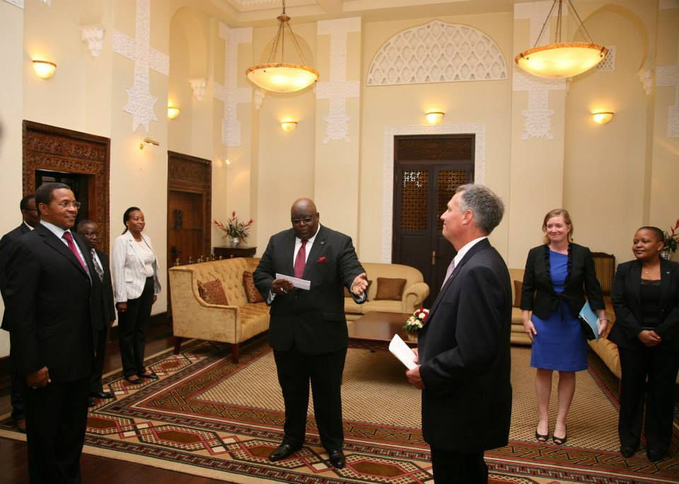 New U.S. Ambassador to Tanzania Mark Bradley Childress (third from right) presents his credentials to the President of the United Republic of Tanzania Jakaya Mrisho Kikwete (left) at a brief ceremony held at the State House in Dar es Salaam on May 22, 2014. Introducing Ambassador Childress is the Chief of Protocol at the Ministry of Foreign Affairs and International Relations Ambassador Mohammed Maharage Juma.